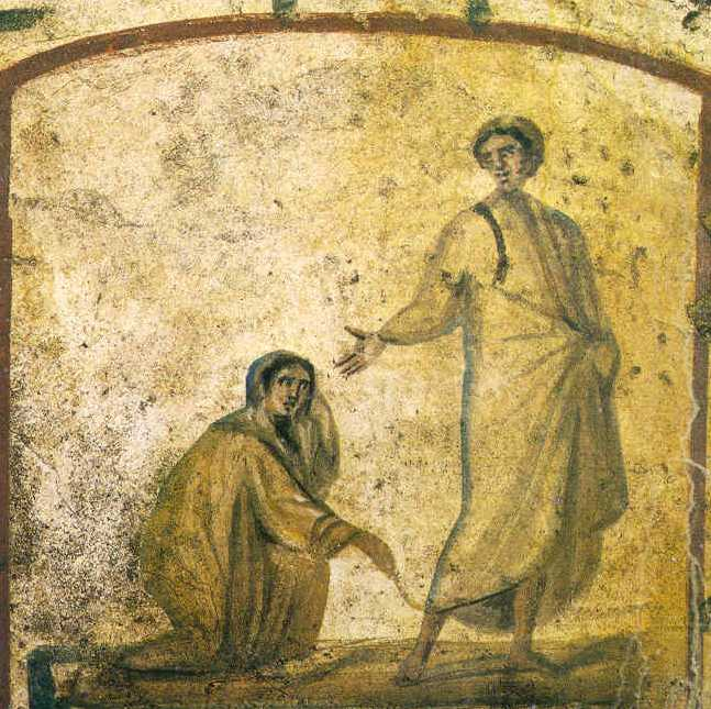 Christ healing a bleeding woman Photo from Catacombes of Rome Over 1500 years old 2d art